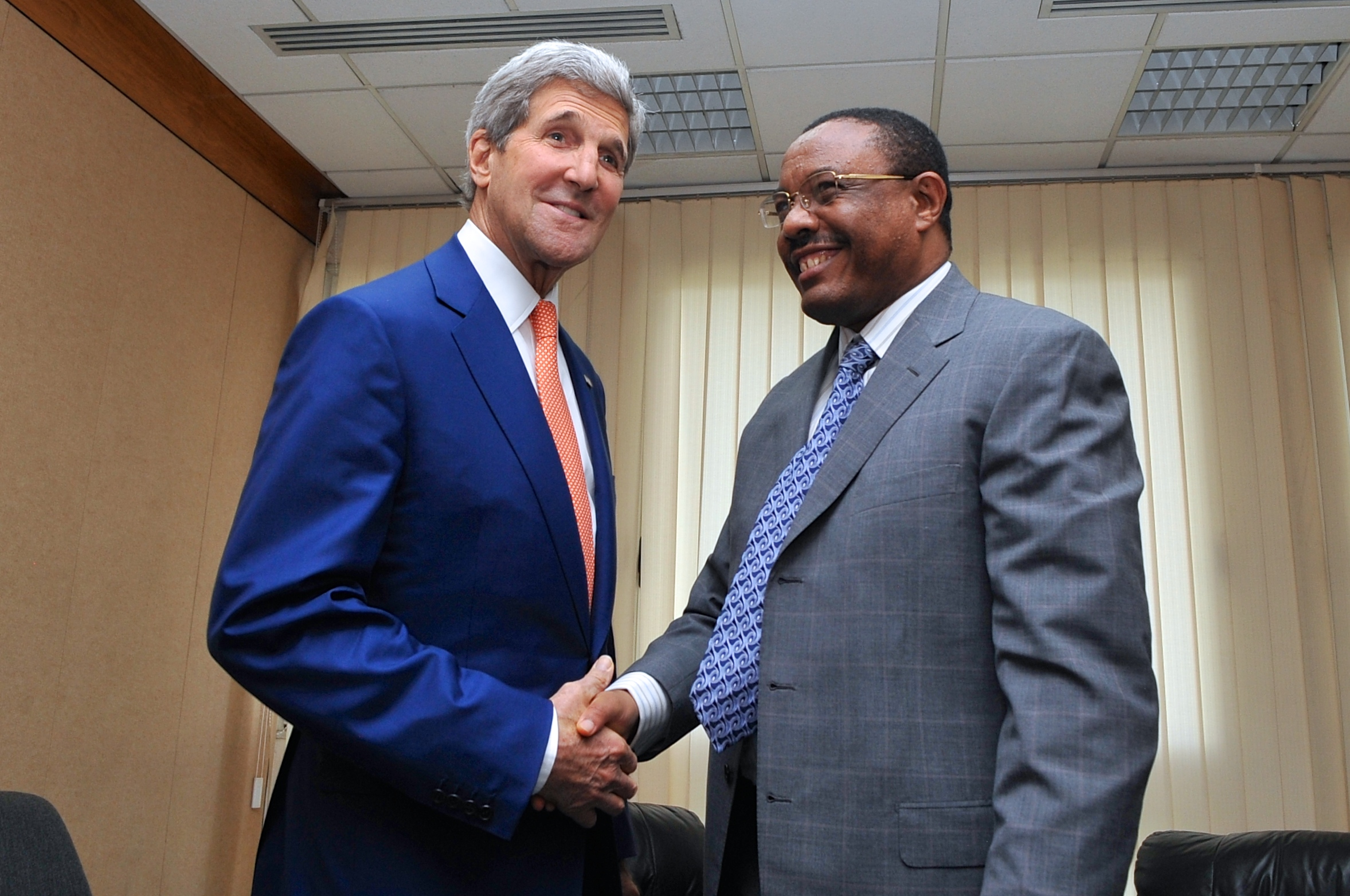 U.S. Secretary of State John Kerry shakes hands with Ethiopian Prime Minister Hailemariam at the beginning of a meeting in Addis Ababa, Ethiopia on May 1, 2014.